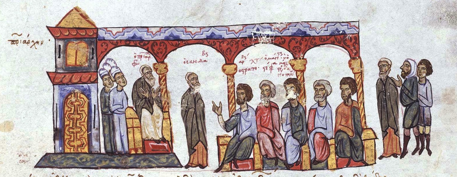 The interrogation of Patriarch Photios